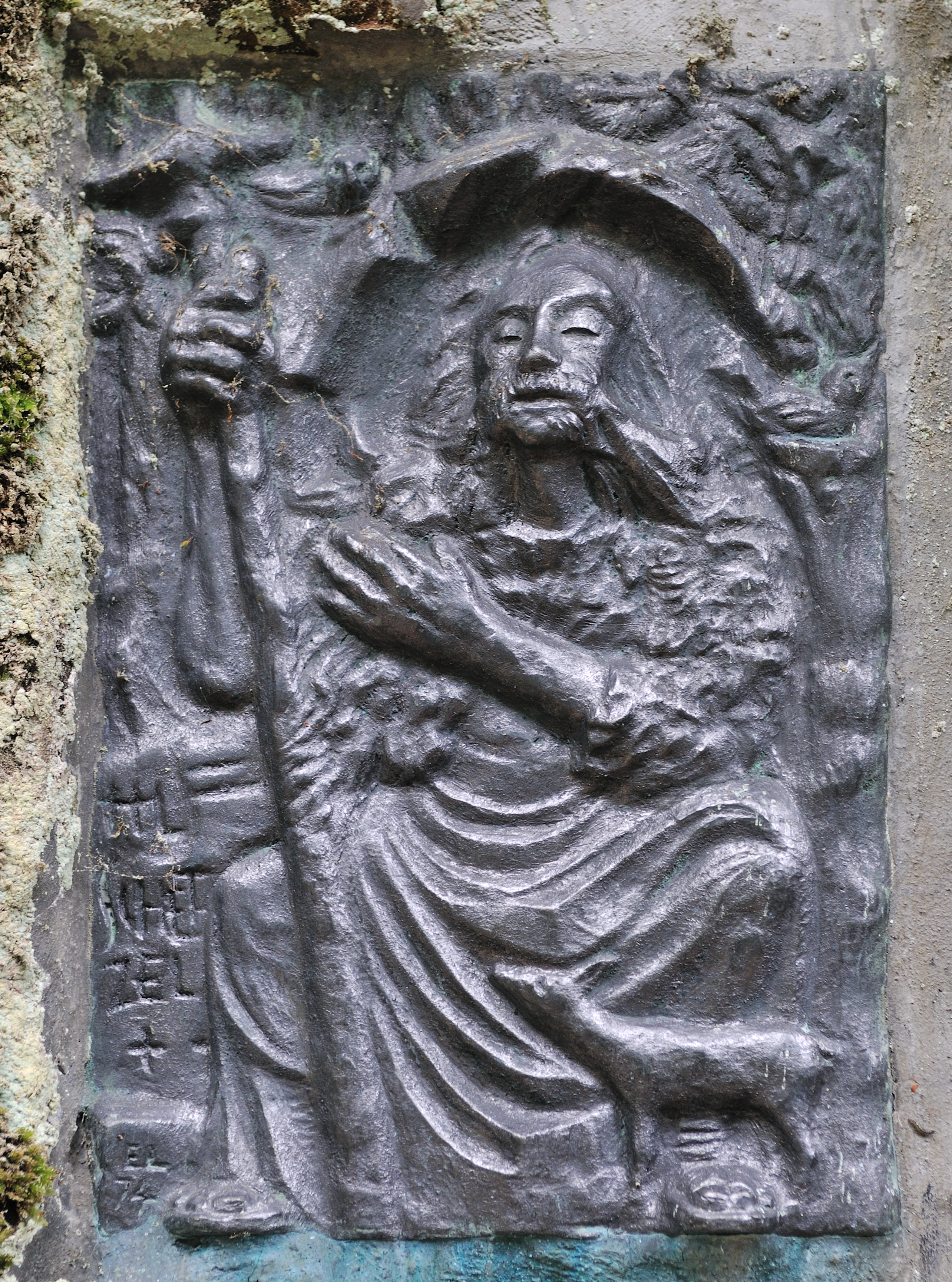 Luxembourg, commune of Niederanven, Grunewald: plaque (signed EL, Edmond Lux) showing the Schetzel. The plaque is seen at the left of the cave where the Schetzel lived.